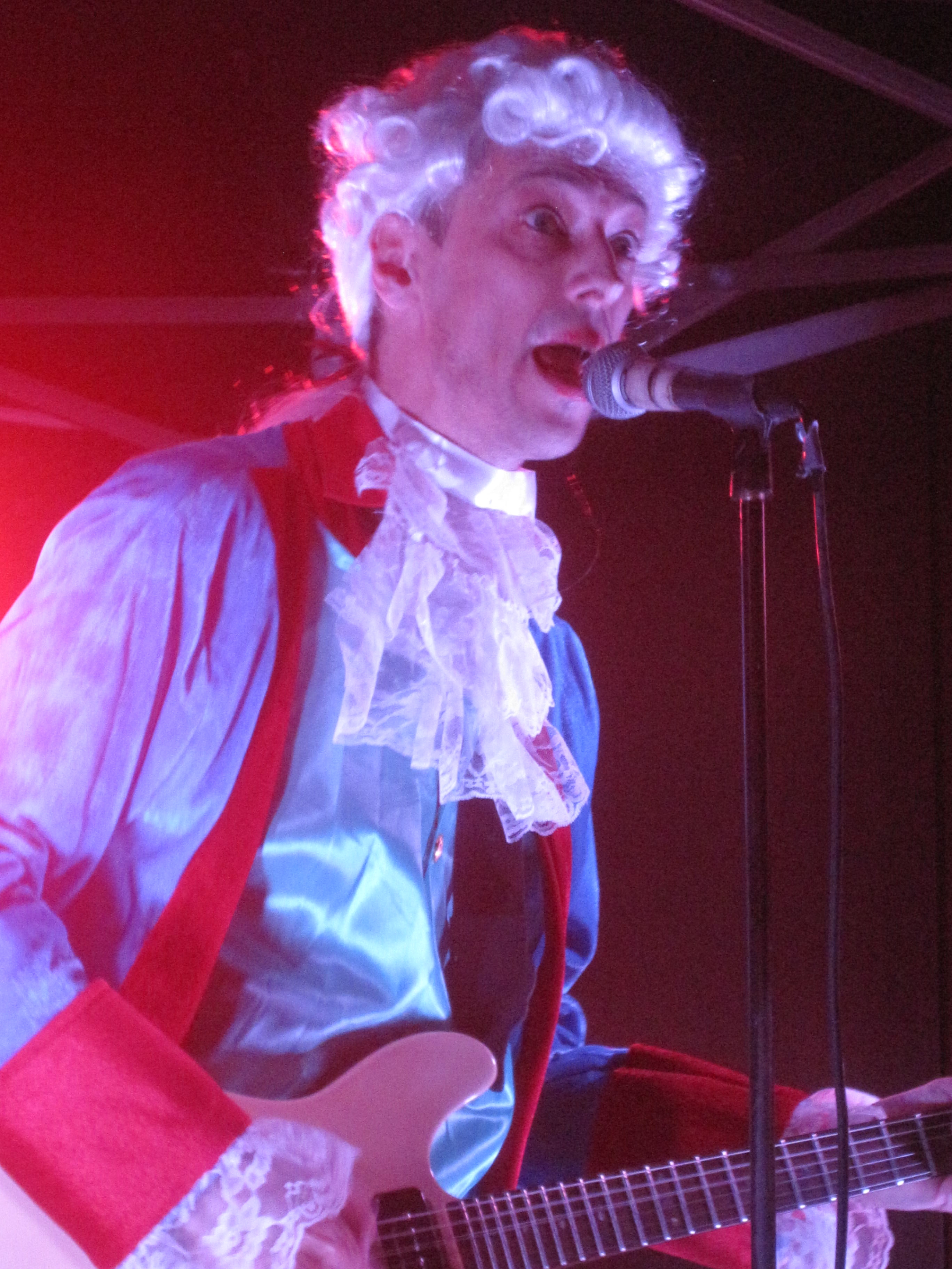 Niels Jensen (born 1964), Swdish singer and actor, during a performance in Lund, October 2012.